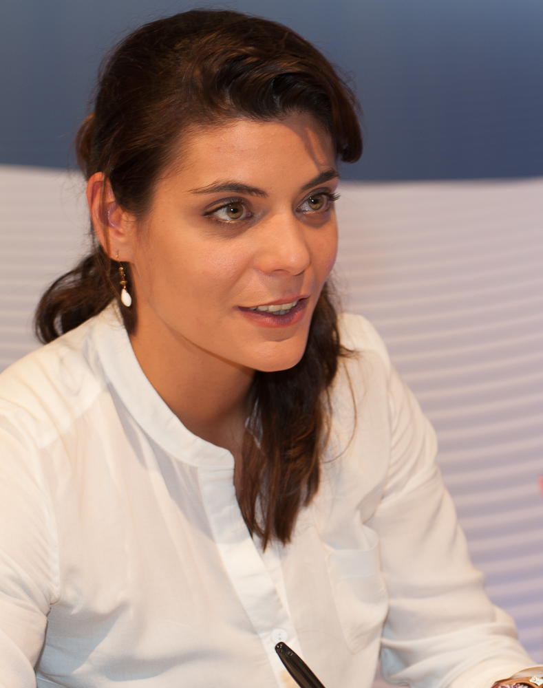 Sara Turchetto, German Actress,autograph session at IFA 2013, Hall 2.2